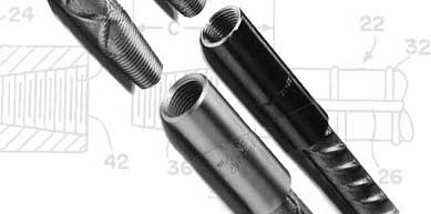 show tapered steel rebar and mechanical rebar coupler